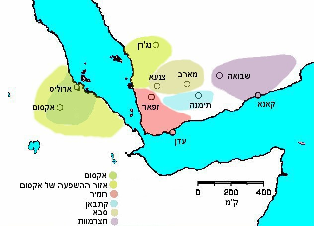 Map of Aksum and South Arabia ca. 230 AD